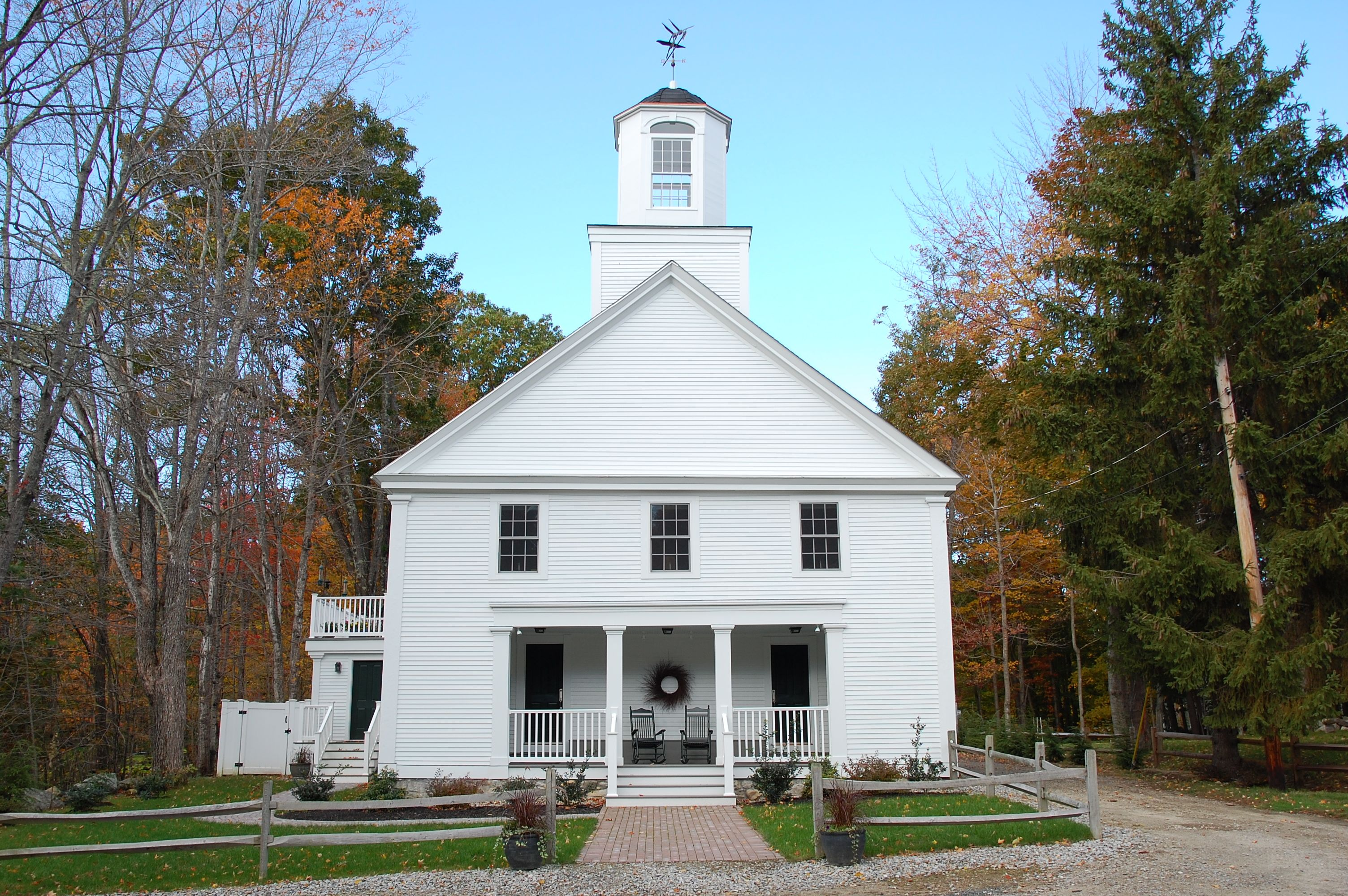 The Union Church of South Wolfeboro, New Hampshire. Listed on the National Register of Historic Places. The sign out front presently describes it as the South Wolfeboro Meetinghouse, Est. 1861.